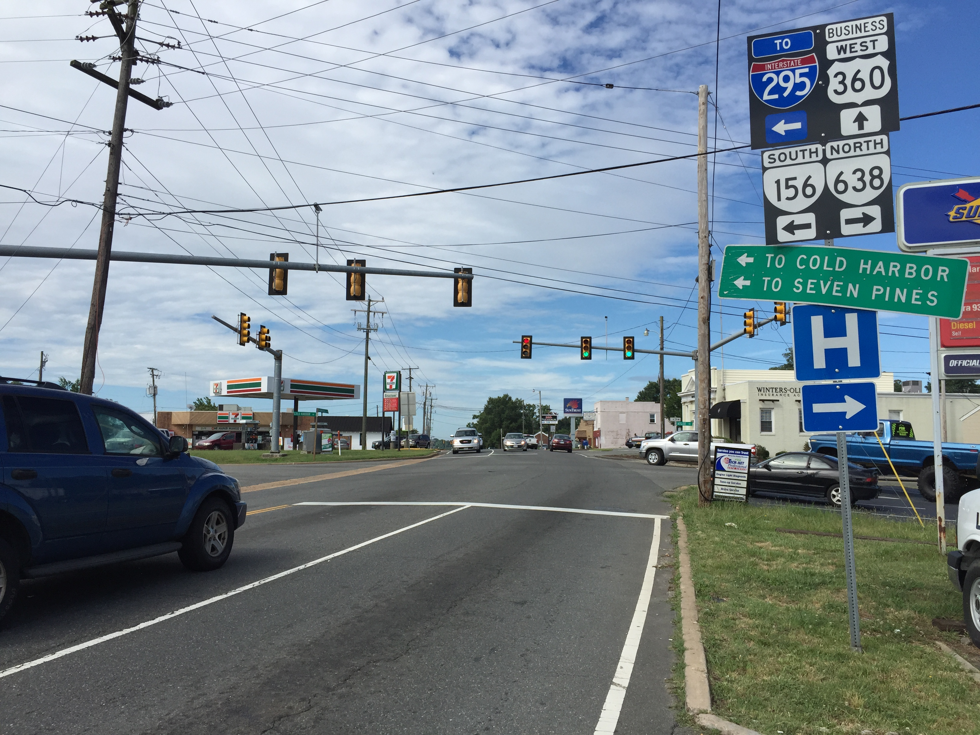 View west along U.S. Route 360 Business (Mechanicsville Turnpike) at Virginia State Route 156 (Cold Harbor Road) and Atlee Road (Virginia State Secondary Route 638) in Mechanicsville, Hanover County, Virginia